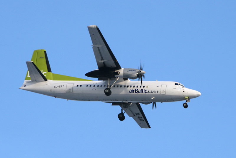 Air Baltic Fokker F-50 (YL-BAT) landing at Vilnius airport (VNO)